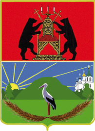 Coat of Arms of municipality "Batetsky rayon" (Novgorod oblast in Russia)